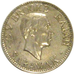 Sarawak coins at the Muzium Negara, Kuala Lumpur. Charles Vyner Brooke